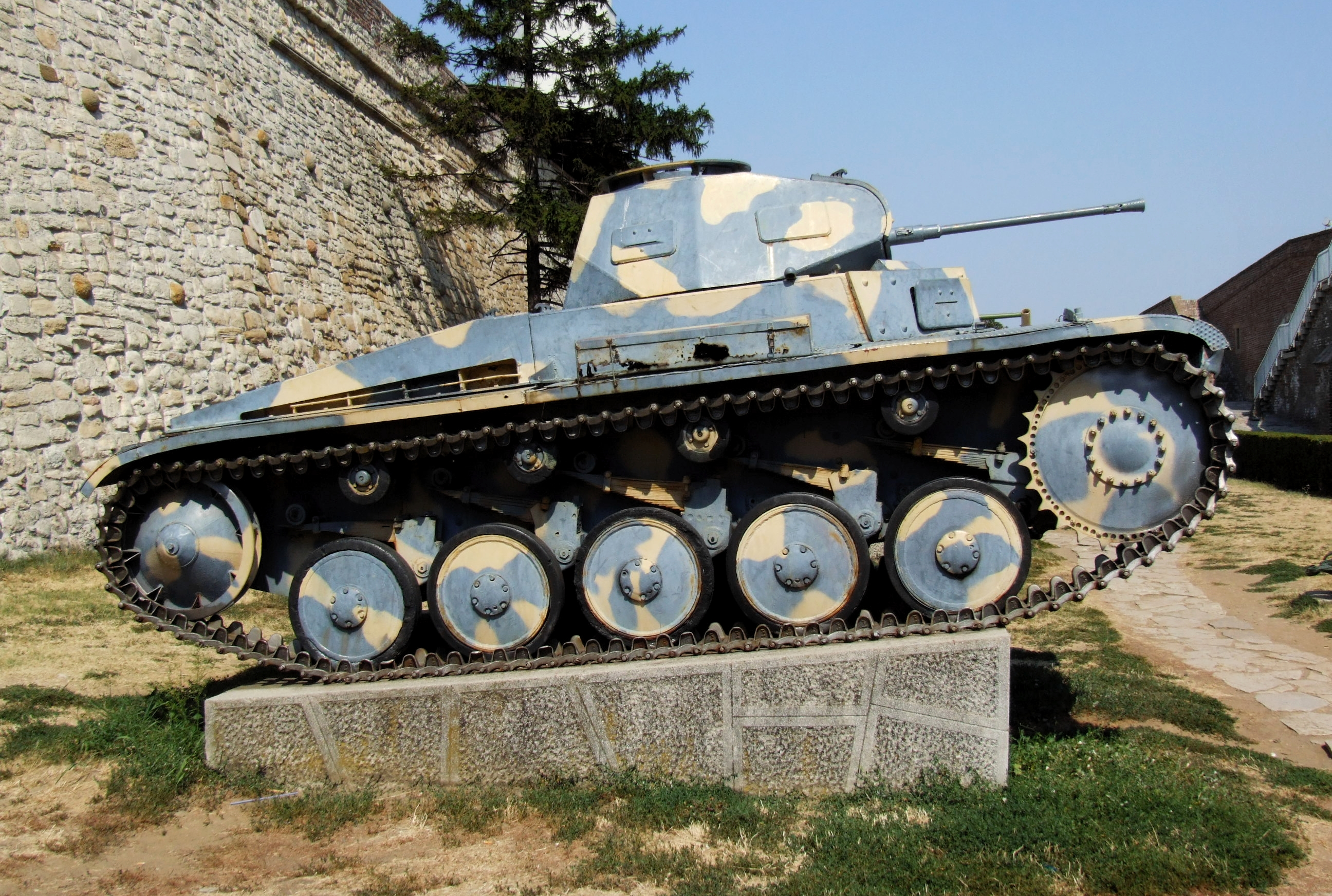 Belgrade Military Museum - Panzerkampfwagen II